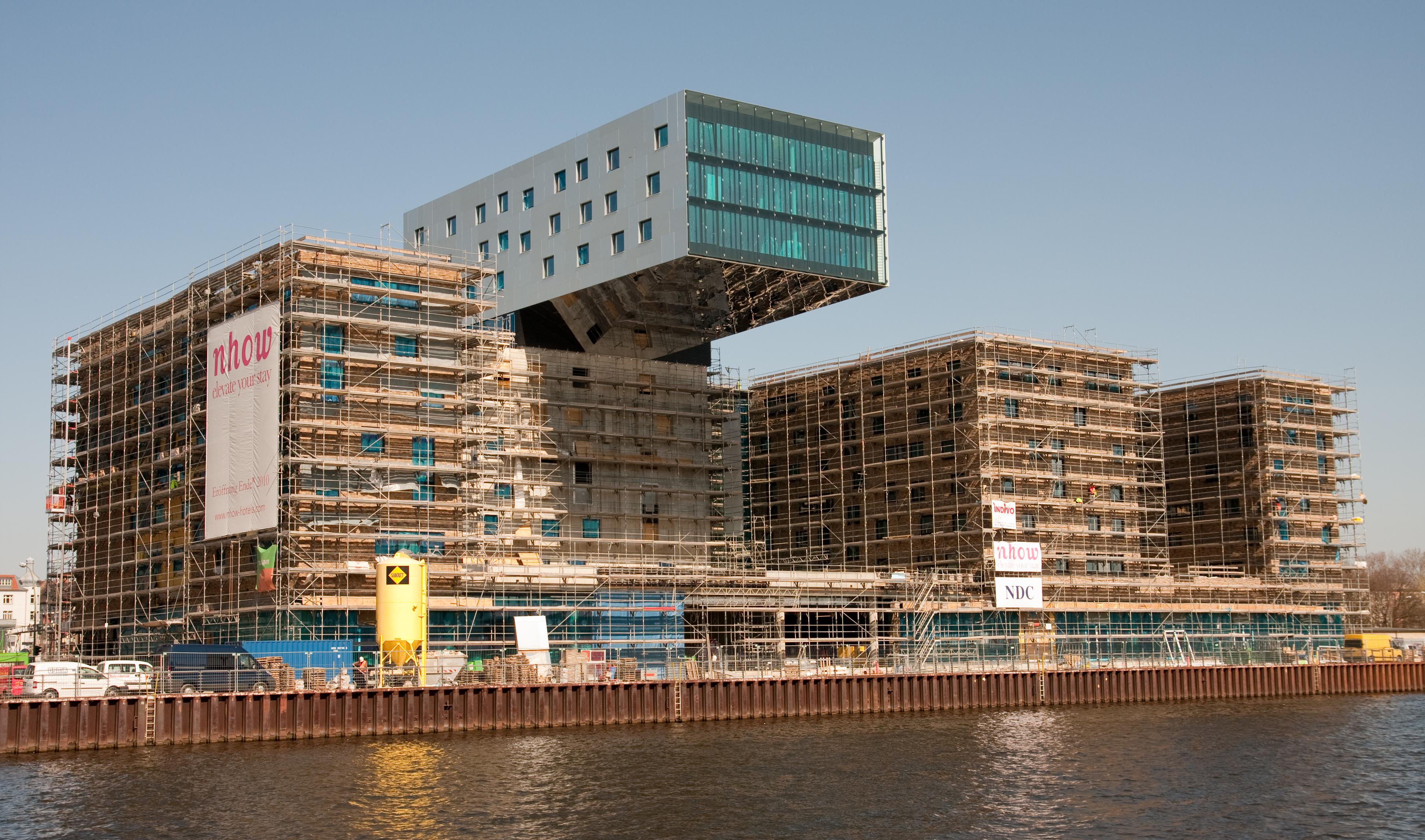 The new nHow Hotel at Osthafen on Stralauer Allee in Berlin-Friedrichshain.